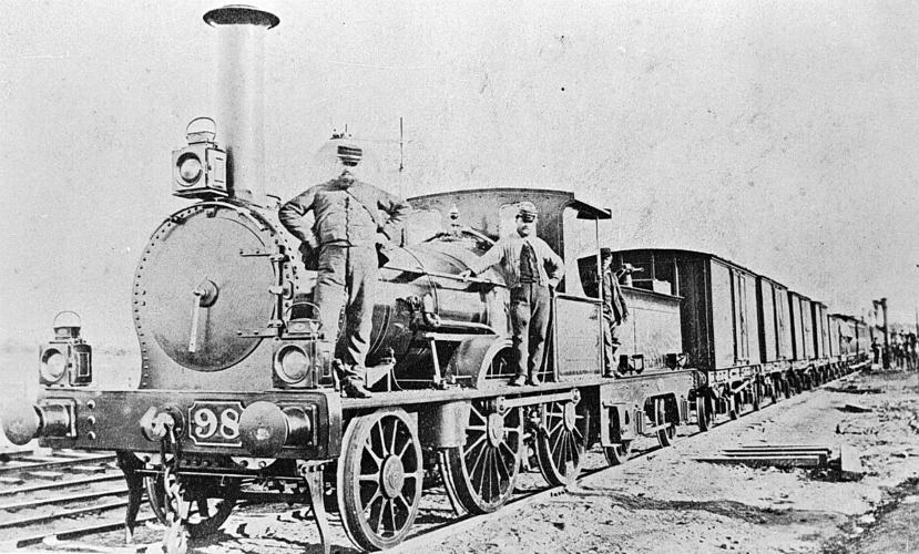 Three engine crew pose with Victorian Railways F class 2-4-0 type steam locomotive No.98 (built by Beyer Peacock, Manchester, 1873). The engine is parked in a station yard coupled to mixed goods and passenger train. In the background can be seen a crowd of further people surrounding a water crane for refilling locomotive tenders. Text from: [1], text CC-BY-4.0